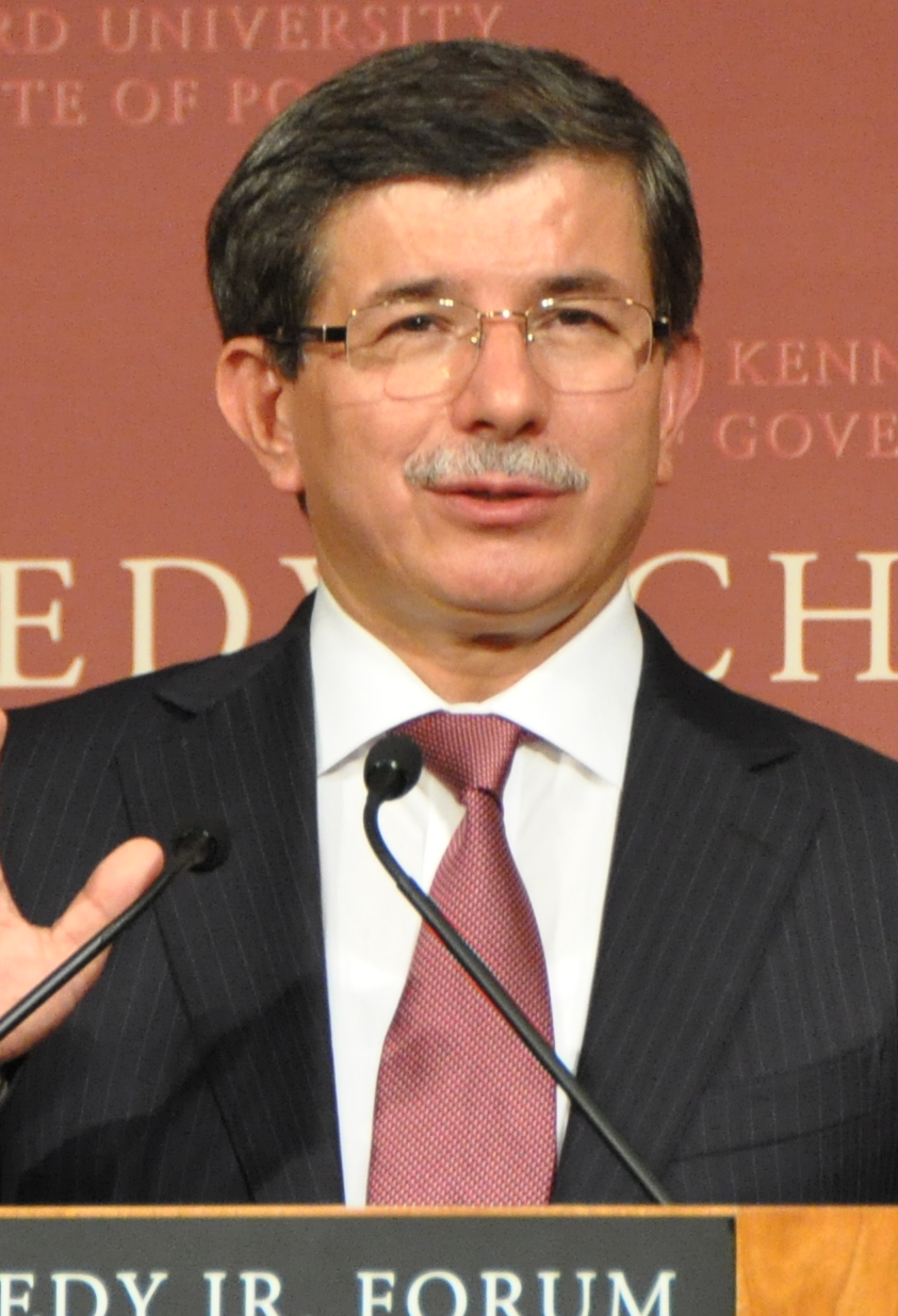 Turkish Foreign Minister Ahmet Davutoglu at Harvard University